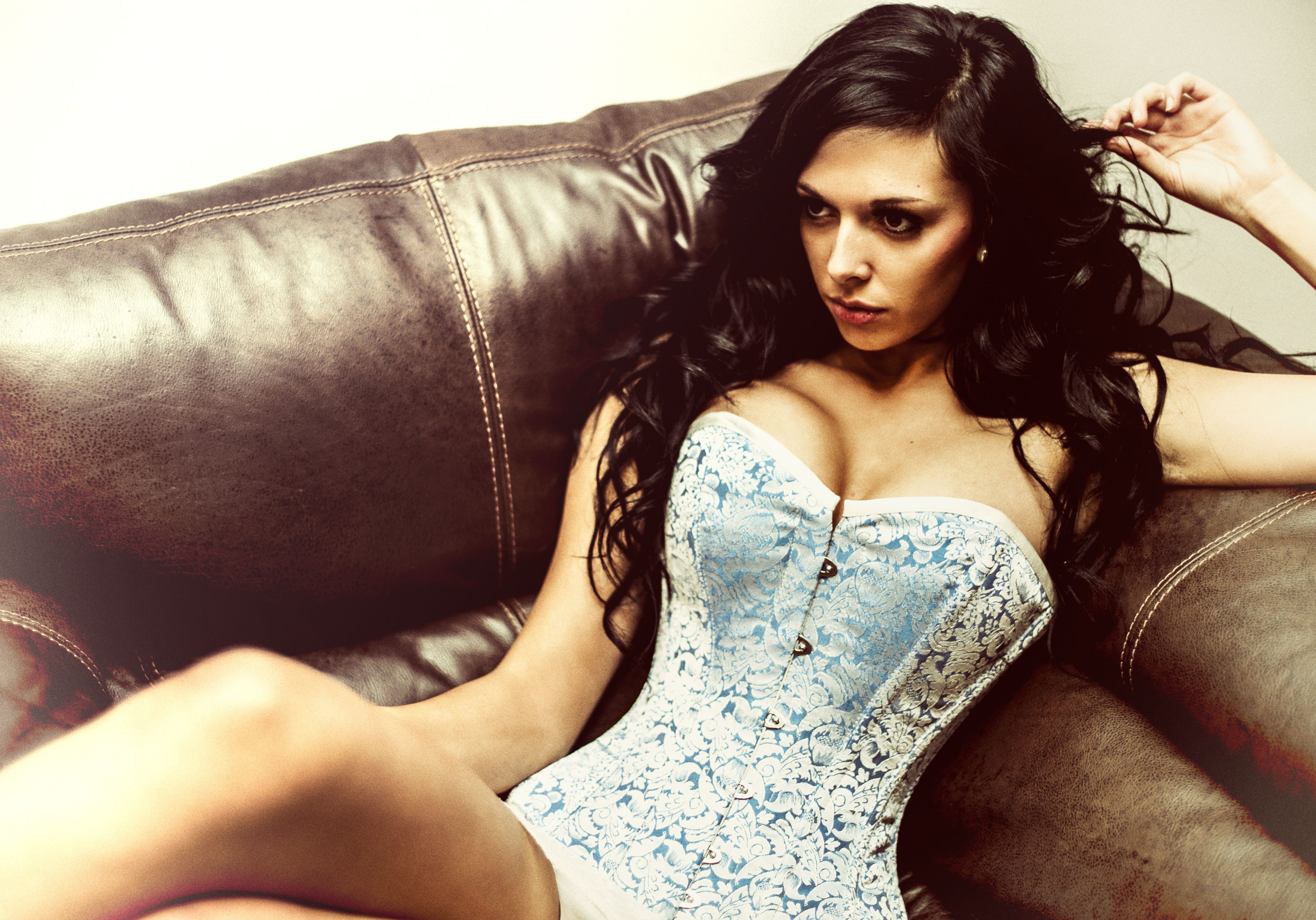 Model - Ellie-Rose Year Taken - 2010 Camera - Nikon D700 Lens - Nikon 50mm f/1.4G Location - Home Ellie Ellie was 19 years old at the time of this shoot, and in the running for Miss UK Earth. She is very tall, especially in heels and has the posture of a would-be supermodel. She has a way of looking into the camera as if she is looking at you, and the thoughts and feelings inside her come right to the surface immediately. I dont think I could have picked anyone better to start my model photography journey with, and we remain friends to this day. This was my first of three shoots with her over a 3 month period, and by far the best images came from it. To be honest, it was my first real photo shoot with an actual model, as oppose to someone who just wanted a few photos taken. We were joined for the day with Mark, a friend of Ellies who also wanted some photos taken. He was a lovely guy and it was his first proper photo shoot too. The three of us spent literally all day together, interspersing photographs with coffee breaks and eventually wound things up around 8pm. Lighting I didn’t have any lighting at this time, so all photos with Ellie were taken with nothing more than an onboard camera flash and natural light. The backdrop was either the front room wall or the bedroom! Processing Most of the images were edited with nothing more than Photoshop CS4. I tried to give the images a slightly warm tone by boosting the saturation in the yellow and red channels, whilst playing with the levels to get a slightly high-key feel to them. Back in these days, I was obsessed with high-key and think it was my way of disguising what were relatively ordinary photos . Links to More Photos If you wish to follow me on Facebook, please click here. If you wish to follow me on Twitter, please click [#//twitter.com/Liesthrualens here.]